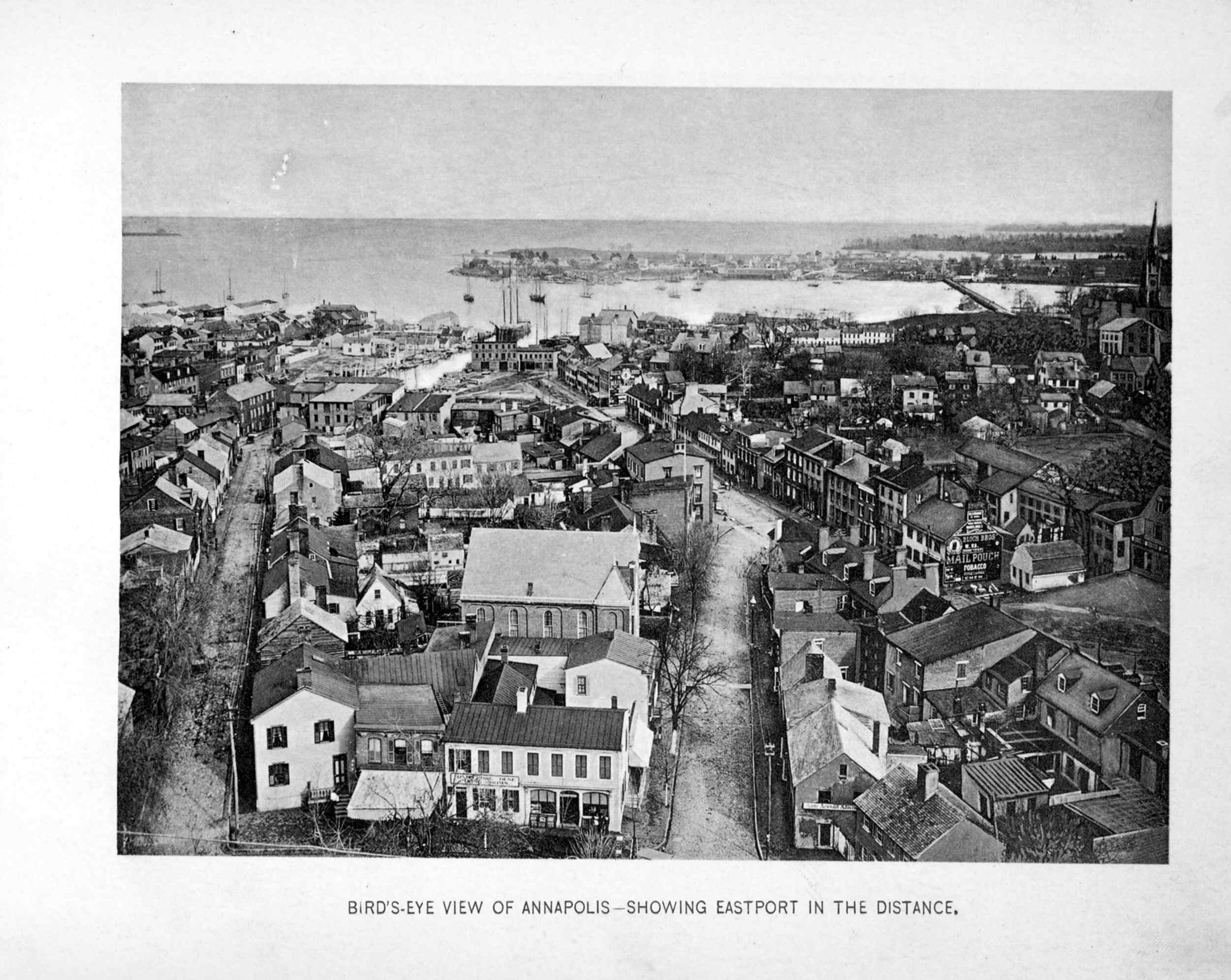 1896 Annapolis Maryland